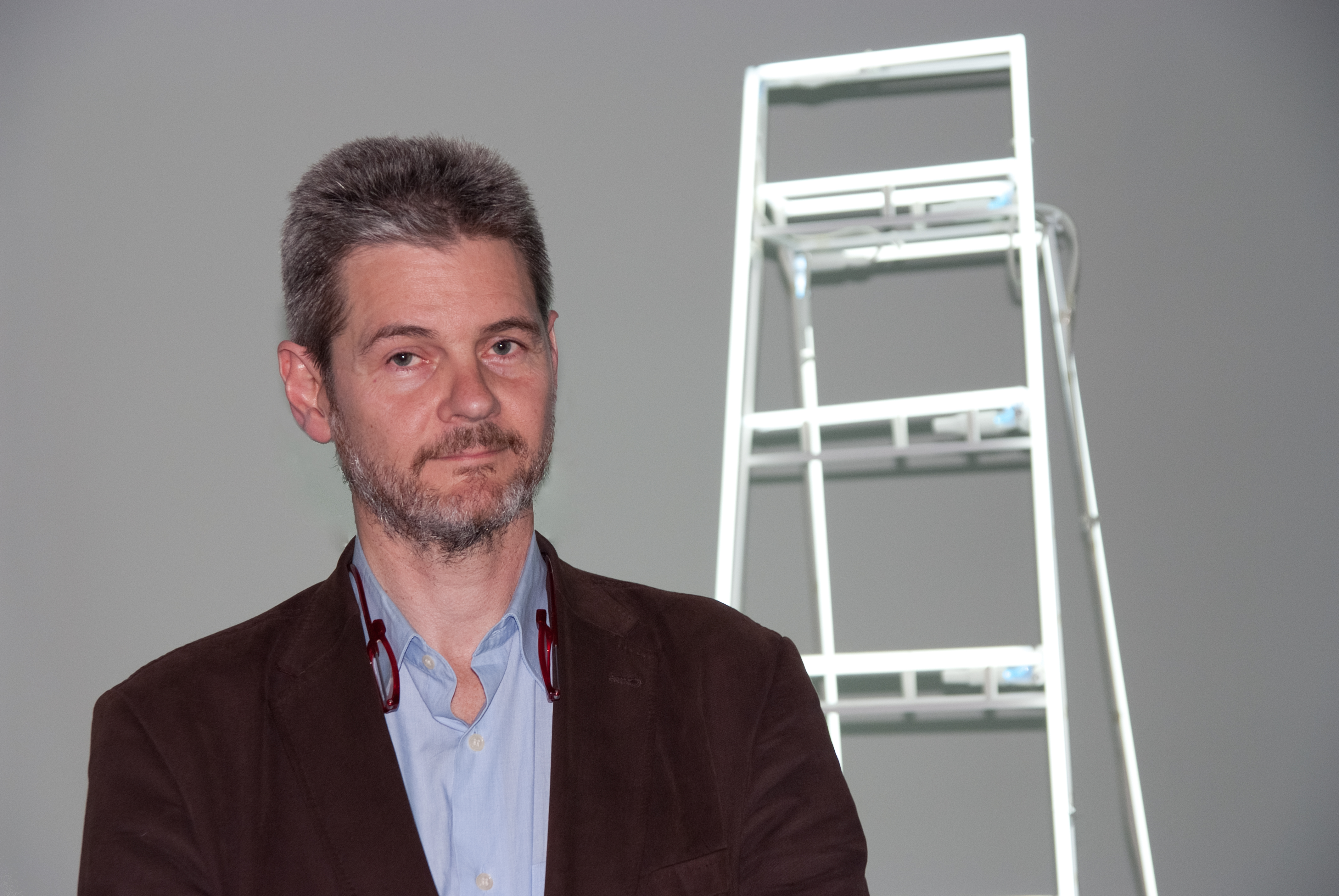 Photograph of Ángel (de la) Cruz